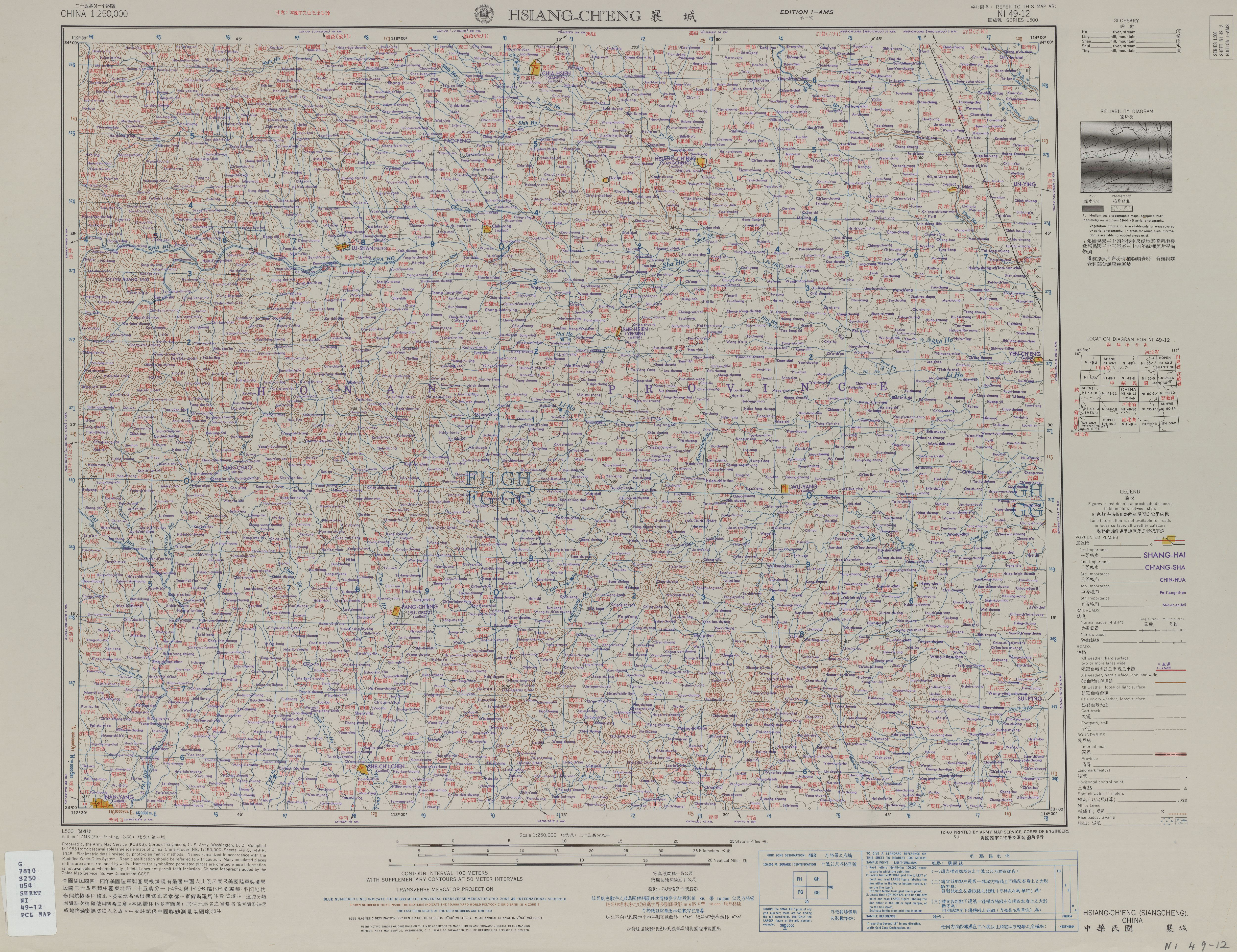 China AMS Topographic Maps